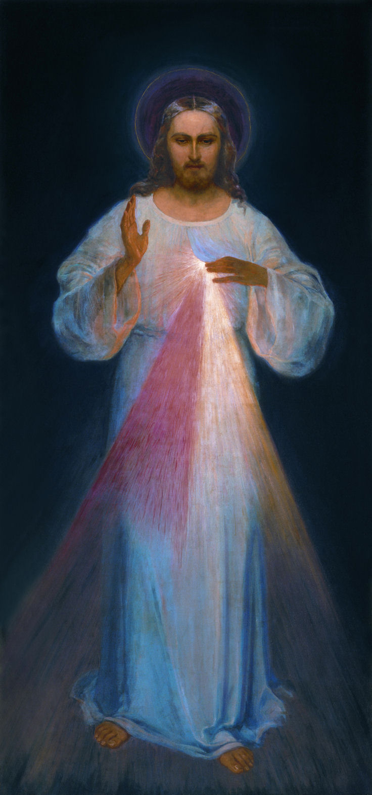 Divine Mercy. Painting in Divine Mercy Sanctuary in Vilnius